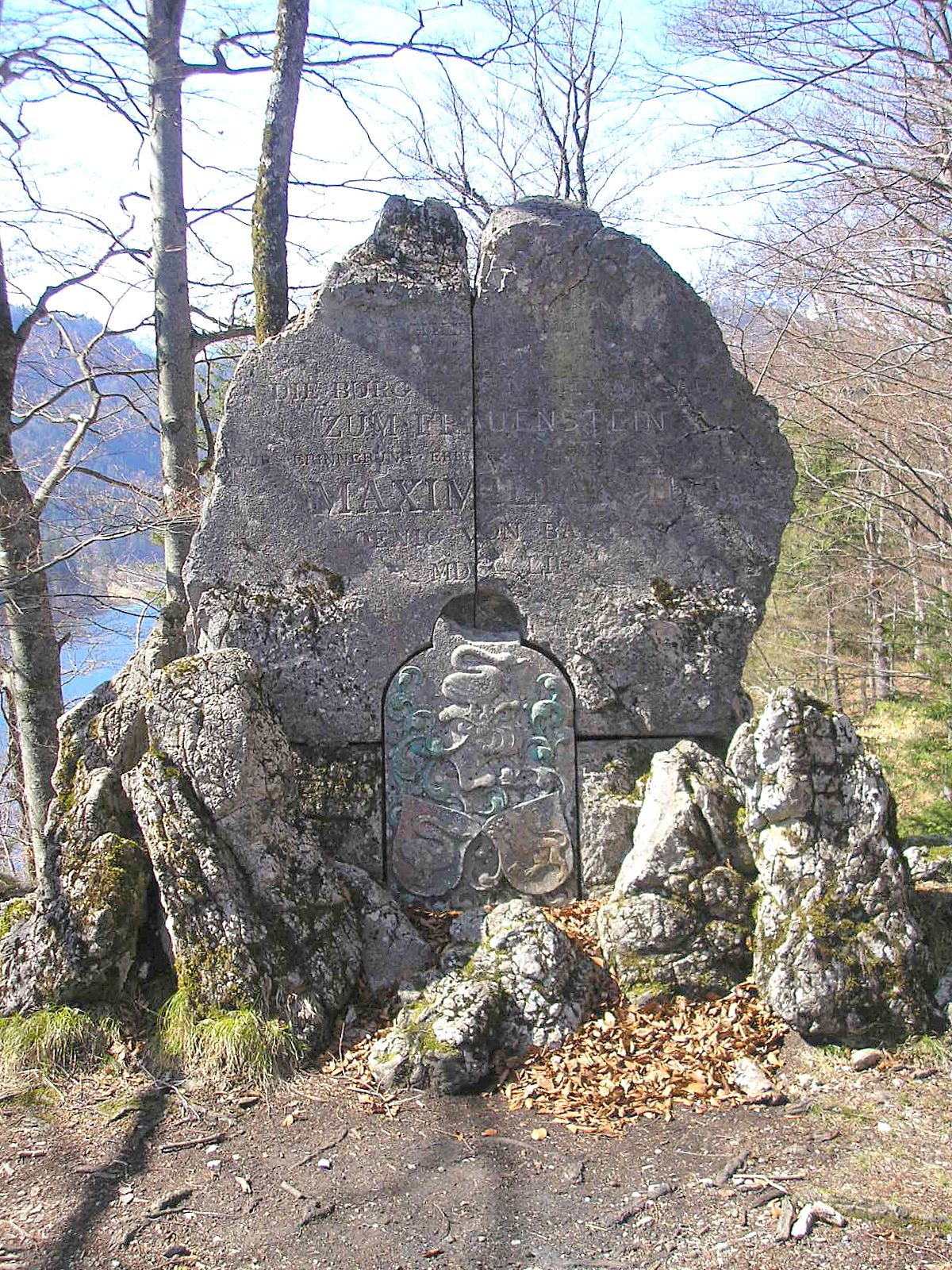 Former Frauenstein castle (Schwangau, Landkreis Ostallgäu, Bavaria, Germany). Memorial at the central castle